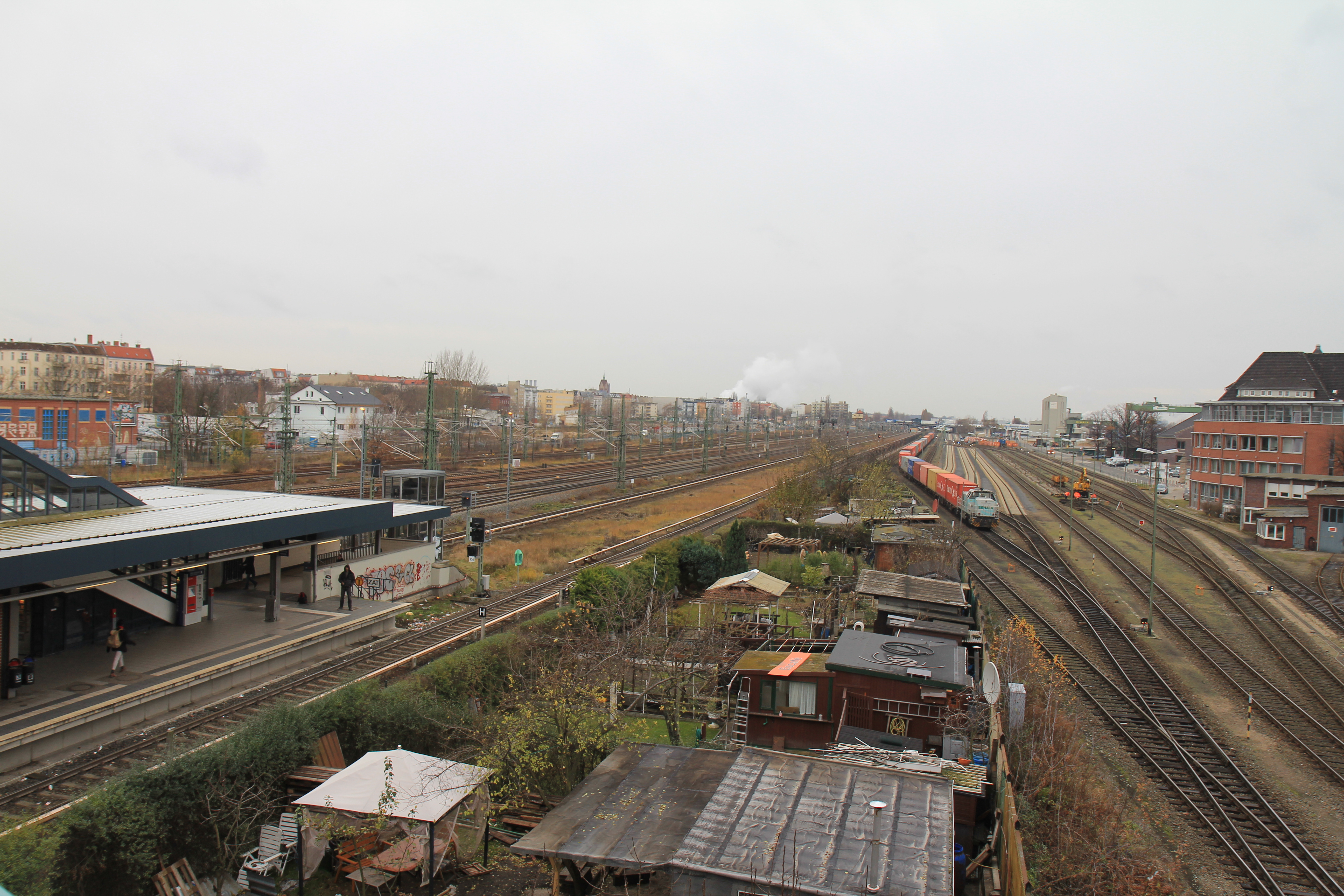 Station "Westhafen" of S-Bahn Berlin and container freight station Westhafen seen from Putlitzbrücke